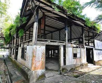 Fort Alice in a bad state